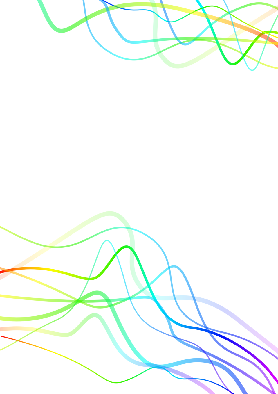 Colourfull wave lines as background.